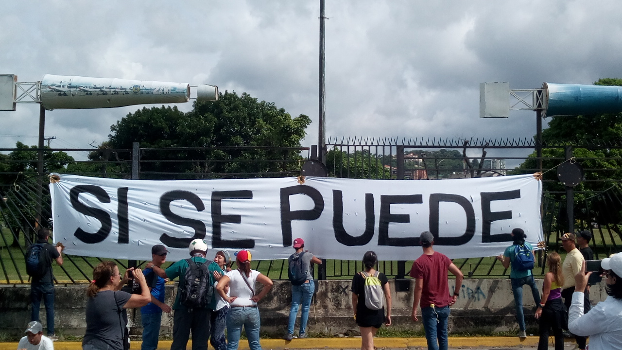 Sign saying "It Can Be Done" displayed during an opposition sit in